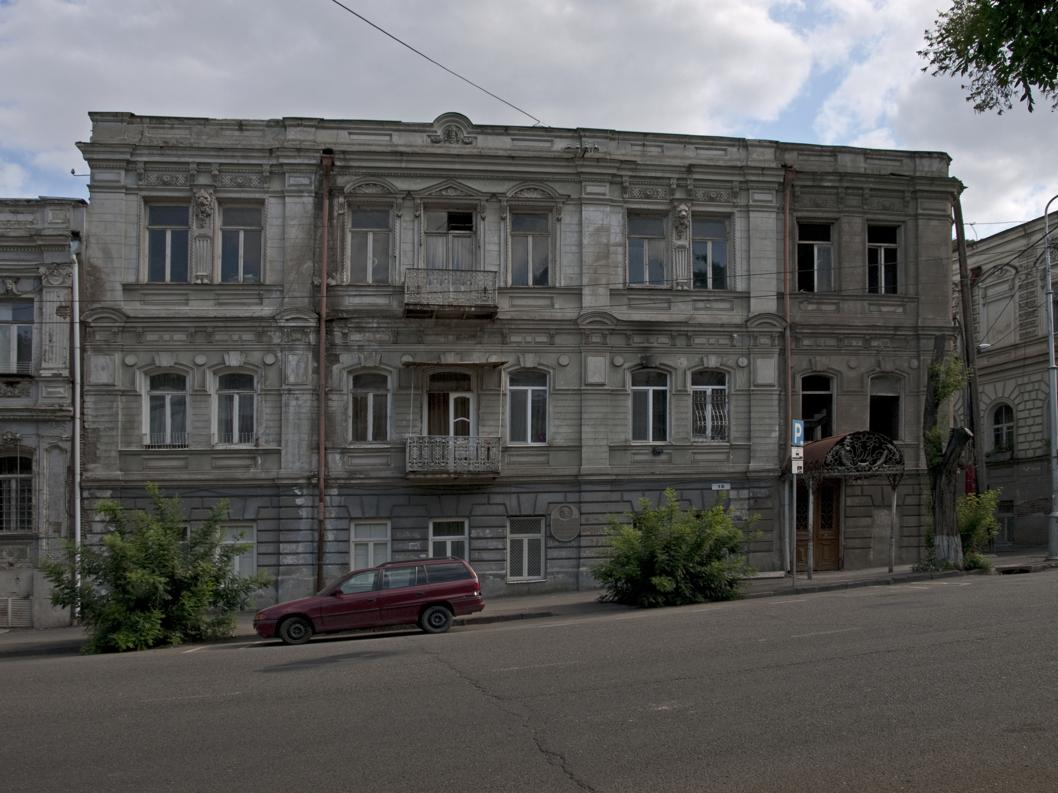 The house in Tbilisi where Hovhannes Tumanyan lived. Amagleba street, 18. The memorial plaque is in the center